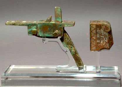 A Chinese crossbow with a buttplate from either the late Warring States Period (3rd century BC) or the early Han Dynasty (202 BC – 220 AD); made of bronze and inlaid with silver.